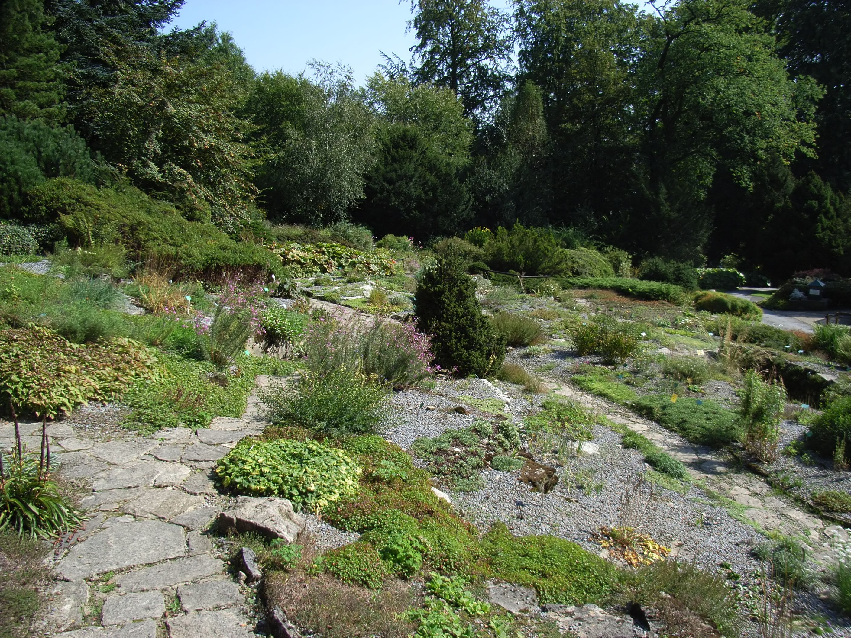 Alpine Garden in the Botanical Garden Bielefeld.